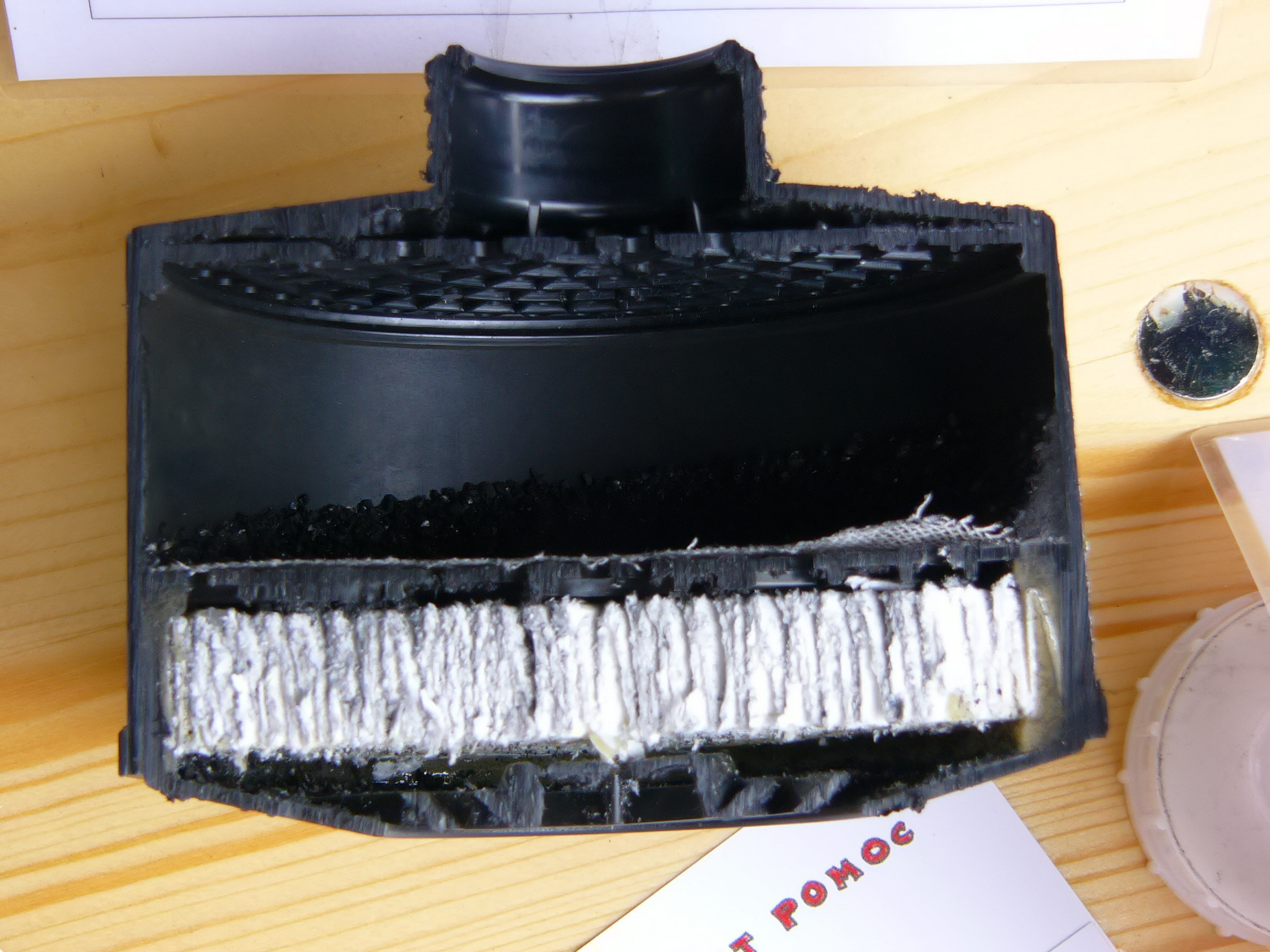 cross section of filter of gas mask. Filter consist of plastic box, top with gaskering, filtrating paper and absorbent material. Absorbing material is removed to prevent of smearing people.